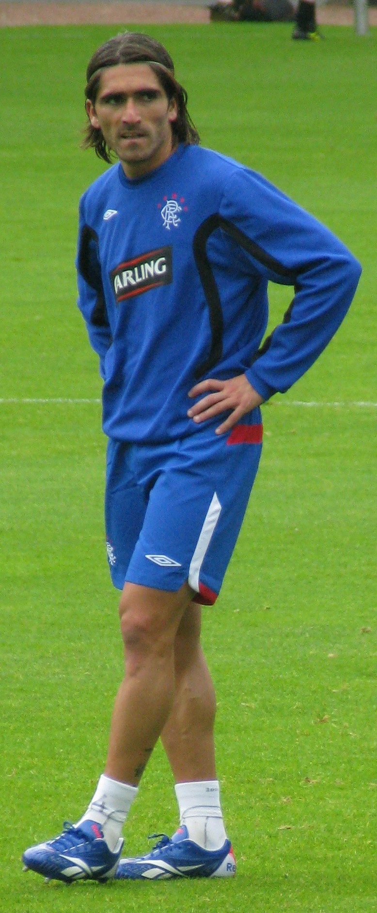 Pedro Mendes warm up.